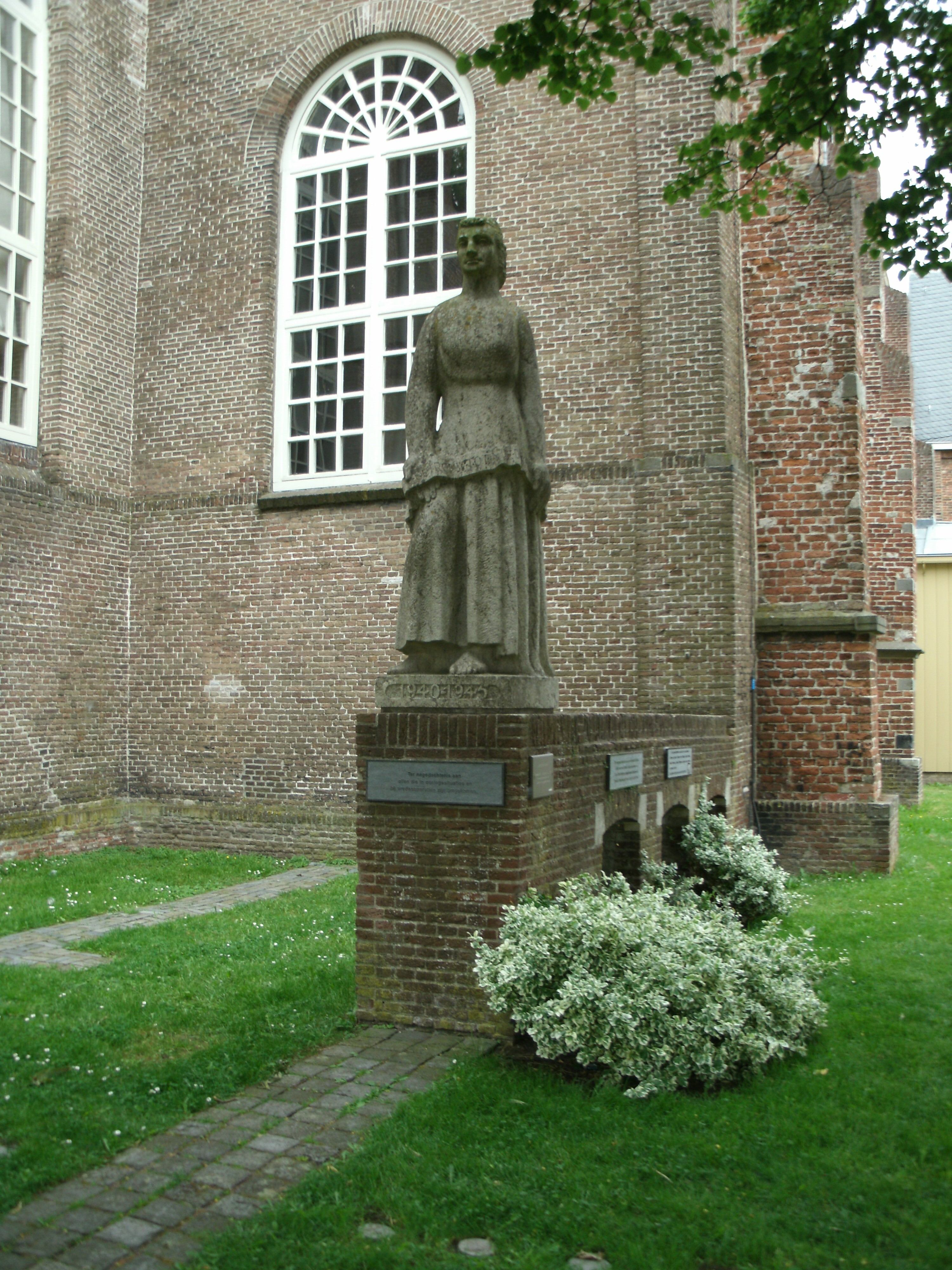 War-memorial in Sneek (1940-1945).